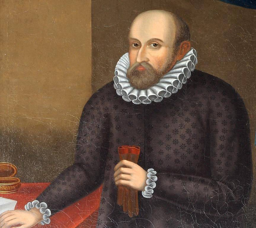 Adam II. z Hradce